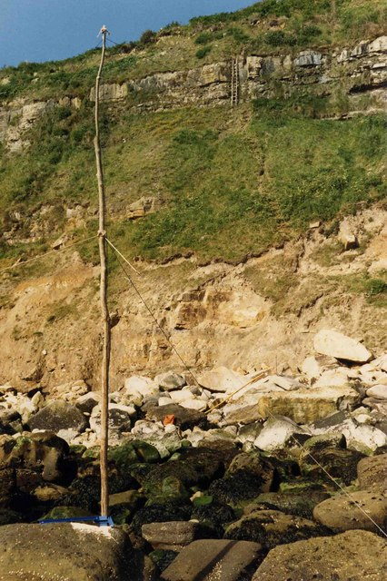 OV0000 in 1987. Old Descent Route, now defunct. This view, taken in July 1987 shows an 8m high Amateur Radio Mast consisting of a tree-trunk bolted via a metal stanchion to a large rock, just inside OV000 square at OV 00011 00017. This position has since been confirmed via GPS averaging but was at the time determined via a mixture of triangulation and linear measurement. The final section of the safeguarded route, built between March & July 1987 can be seen down the lower 45m cliff. The key to this was a 4.3m ladder, purpose built from local materials for direct access into OV0000. This is shown (at top of frame) fixed to the vertical rock-face within SE9999 square and accessible directly from Beast Cliff’s Plateau, which in turn was accessible down the upper cliff from the Cleveland Way near War Dike Gate. Foreshore rocks (out of frame) to the left are in TA0099 whilst some pictured on the right are within NZ9900. This route was gradually destroyed without trace over a 3-year period by storms starting 4th March 1999. These caused major rock-falls and though the tidal foreshore in the foreground, remains largely unchanged, the cliff shown here is bare of vegetation, unrecognisable and unstable. A replacement route, 70m NW was opened up on 16th April 2006 but its condition as of January 2009 is unknown. Photo taken 7th July 1987 – G4YSS.